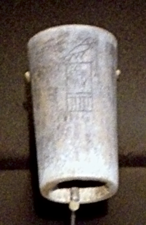 Bone cylinder inscribed with the serehk of Hetepsekhemwy.